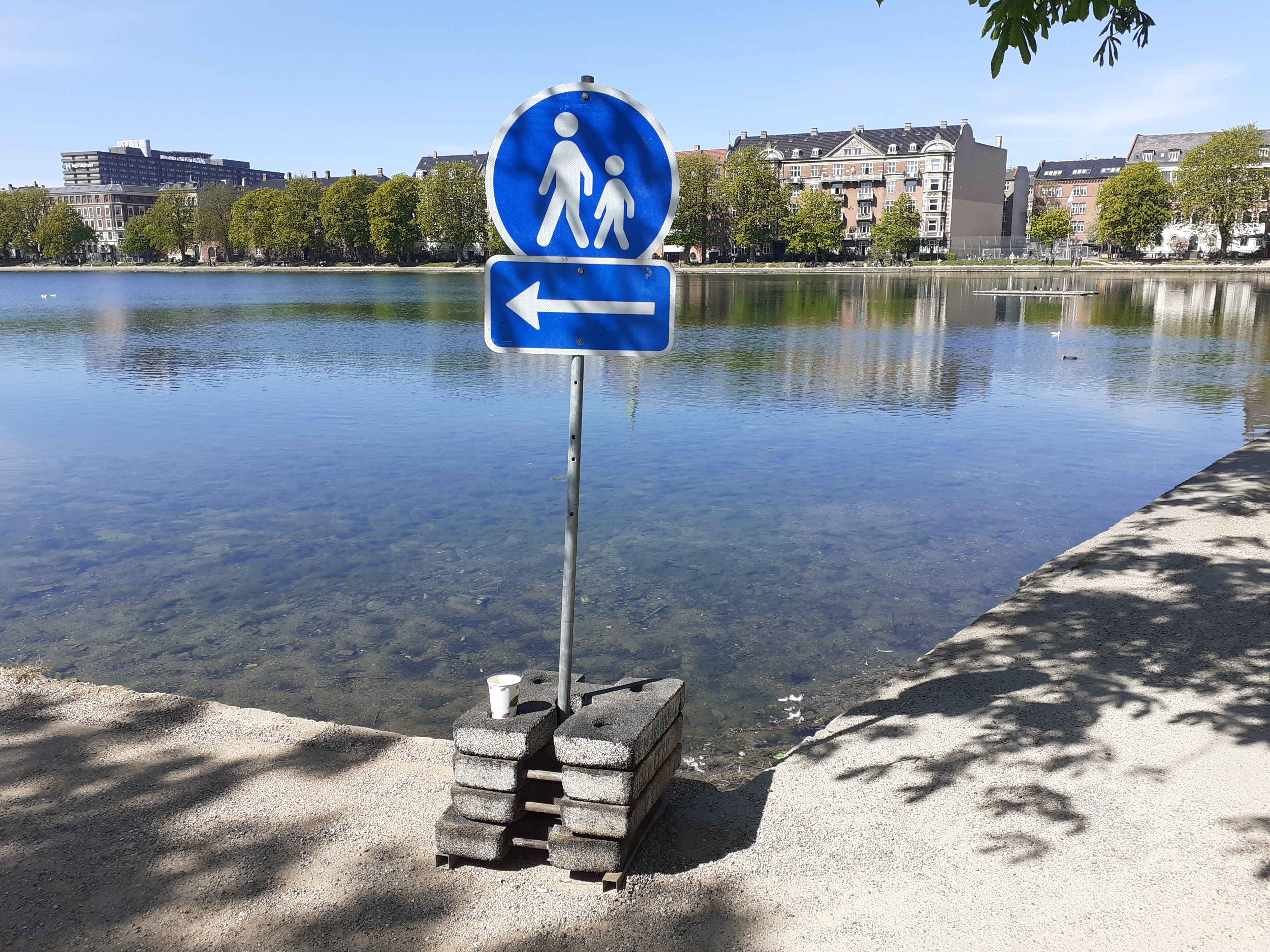 One-way sign for pedestrians at Sortedams Sø in Østerbro in Copenhagen. Due to the corona virus the popular walking paths at the Copenhagen Lakes were made temporary one-way to prevent people from facing each other all the time.